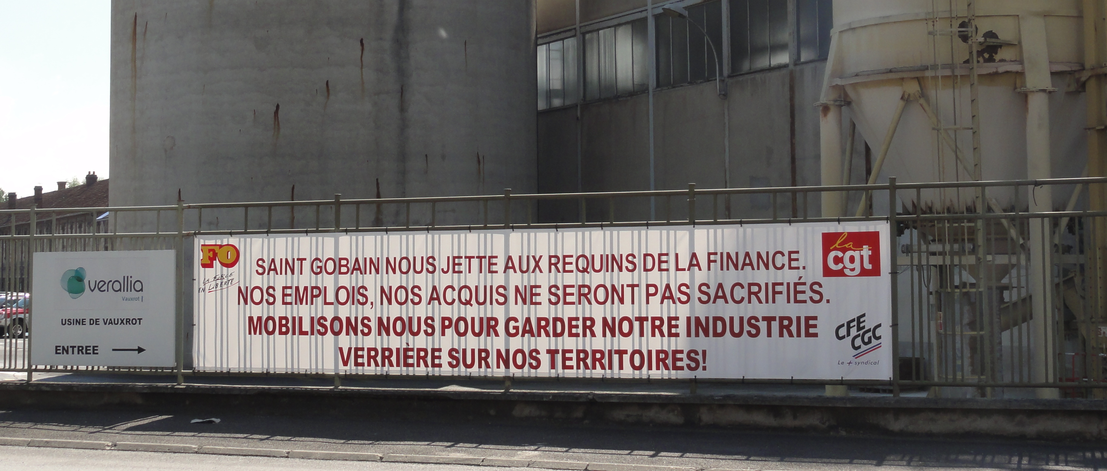 Cuffies (Aisne) verrerie de Vauxrot (04) panneau protestation, cropped